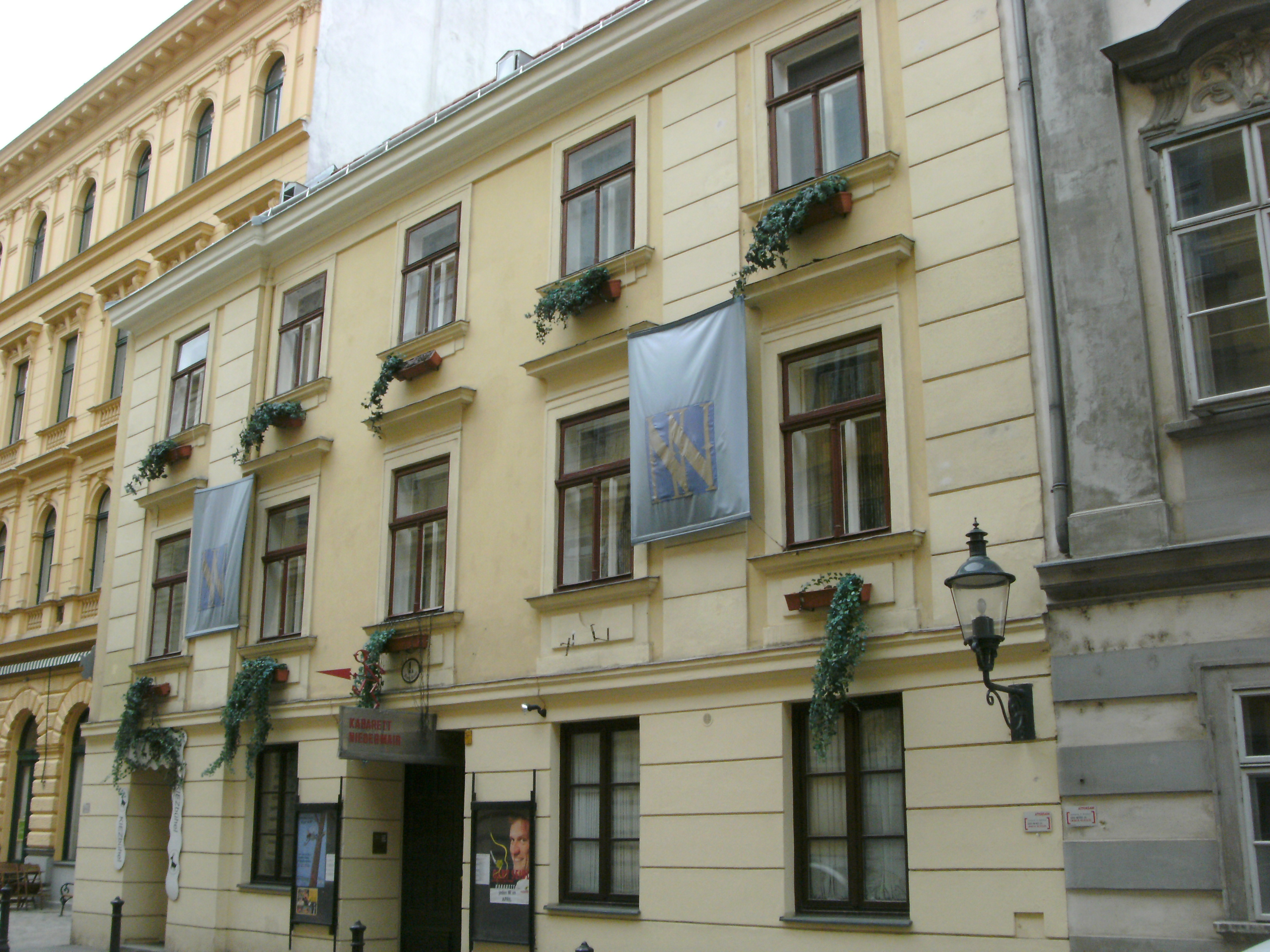 Residential building in Lenaugasse 1a, with Kabarett Niedermair, Vienna's 8th district